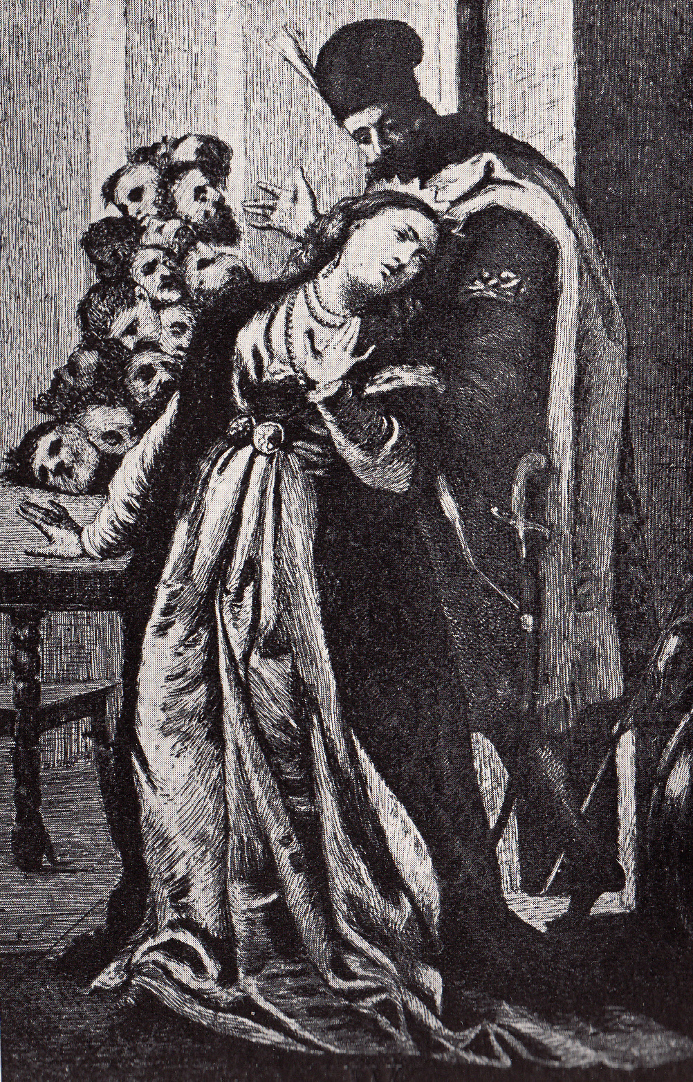 Lăpuşneanu arătând soţiei sale capetele boierilor ucişi ("[Prince Alexandru] Lăpuşneanu Showing His Wife the Severed Heads of Boyars He Murdered"), copperplate etching. Inspired by the short story Alexandu Lăpuşneanu of Constantin (Costache) Negruzzi. The original event took place in 1564.